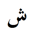 The letter shin from the Arabic alphabet. It denotes the sound /sh/ (IPA: ʃ).